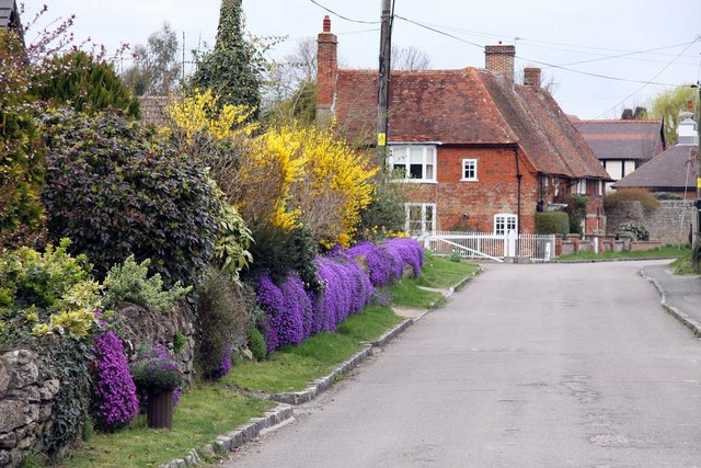 Church Lane, Drayton, Vale of White Horse, Oxfordshire (formerly Berkshire) in spring, with blooming Aubretia and Forsythia